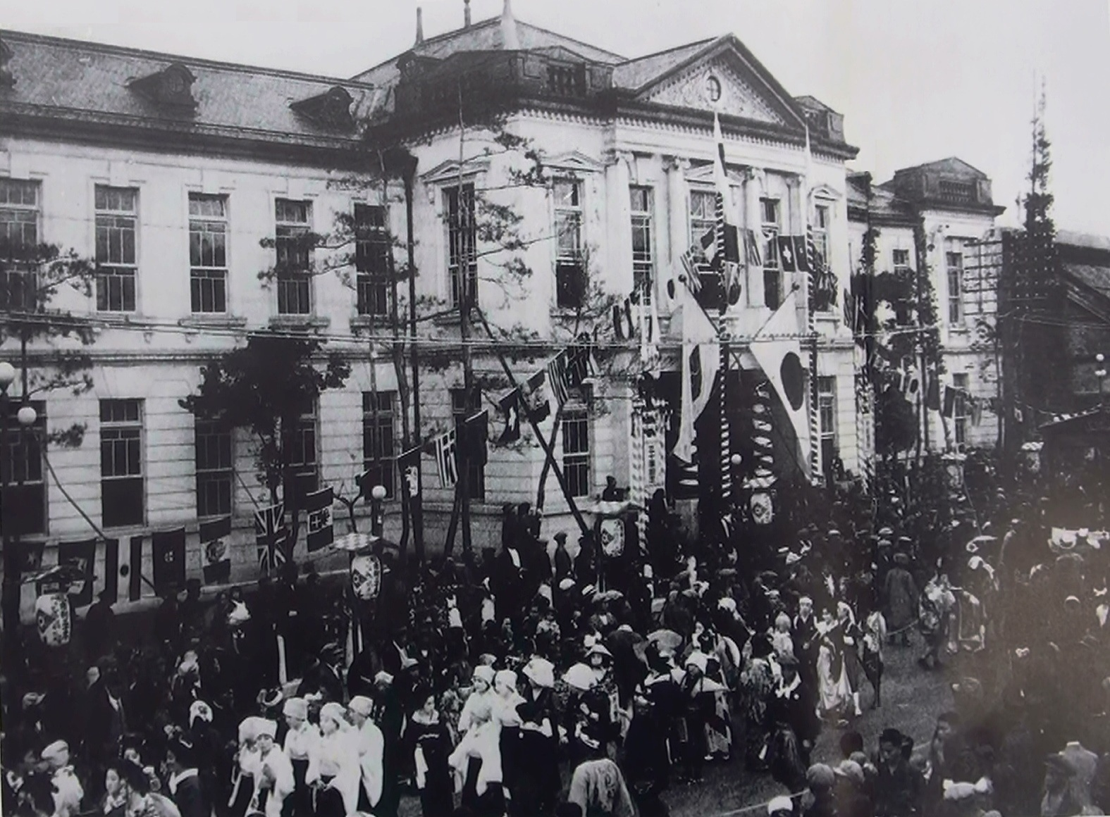 Kofu city hall building of the second. Taken in 1918.Kōfu, Yamanashi, Japan